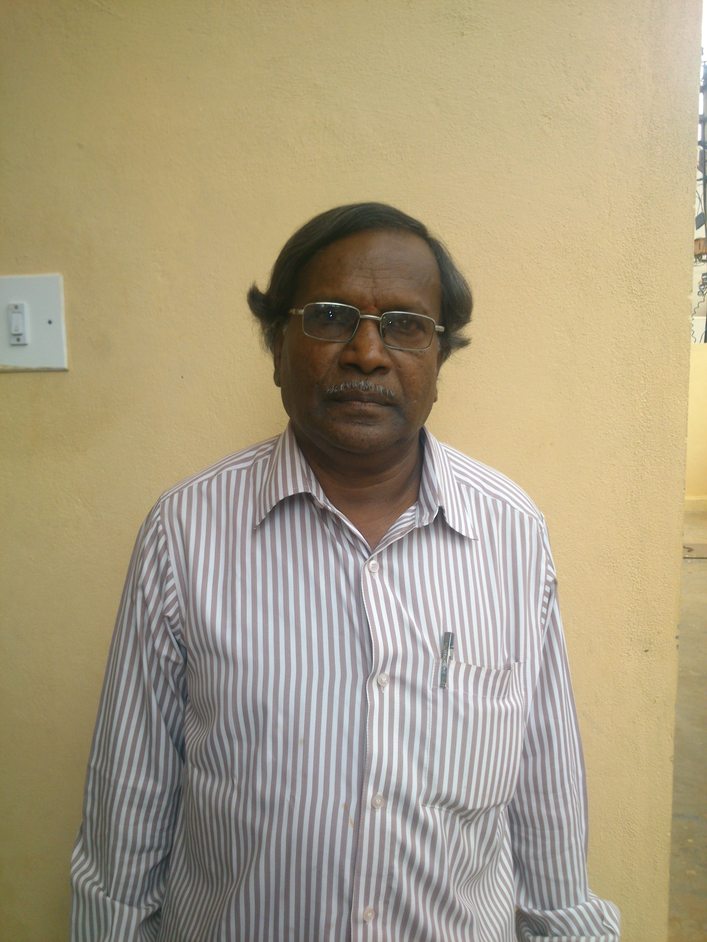 T S Nagaraja setty